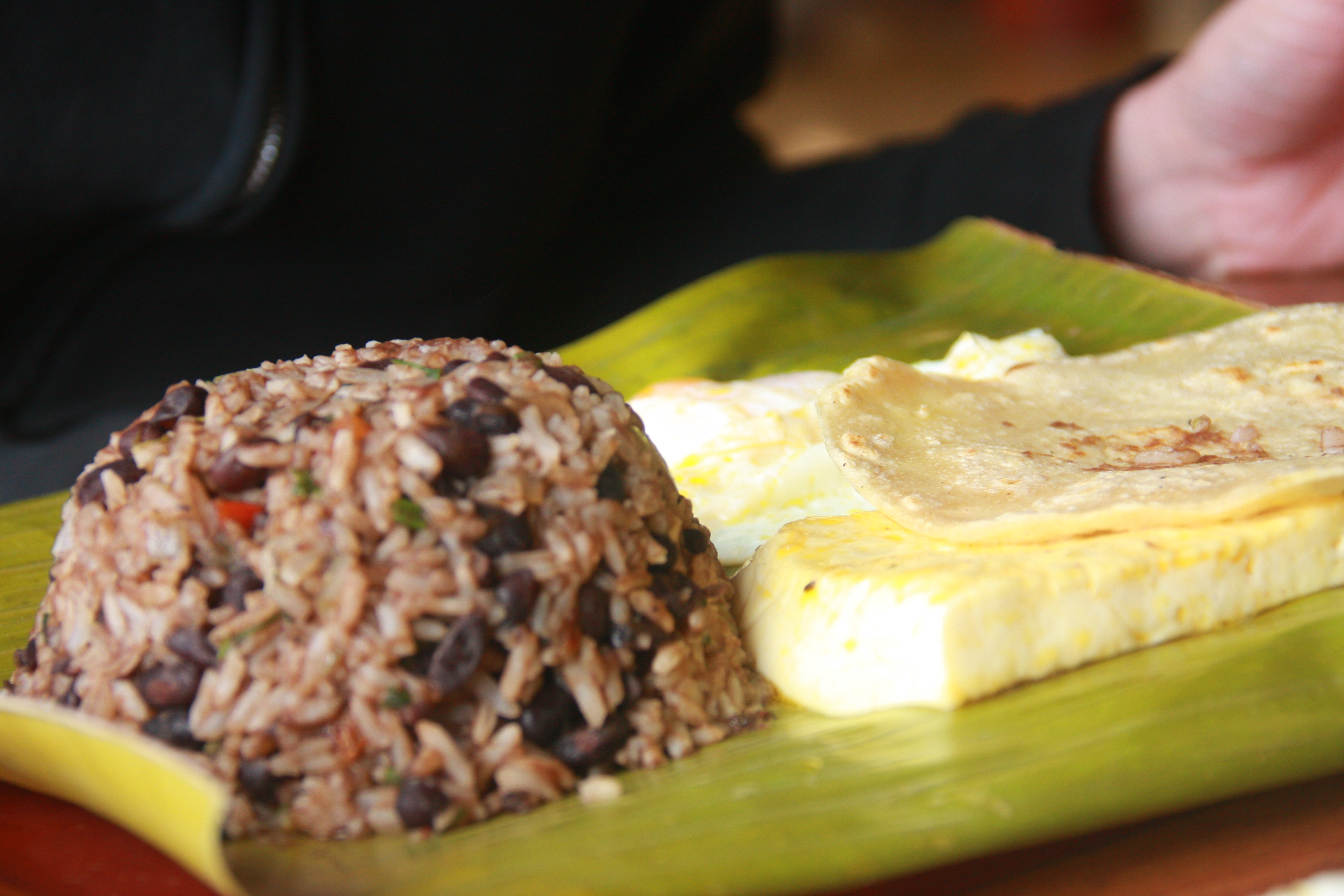 Traditional Costa Rican breakfast. Gallo pinto made with rice, beans, fried egg, cheese, and corn tortilla. Taken at a restaurant in Zarcero, Alajuela, Costa Rica.